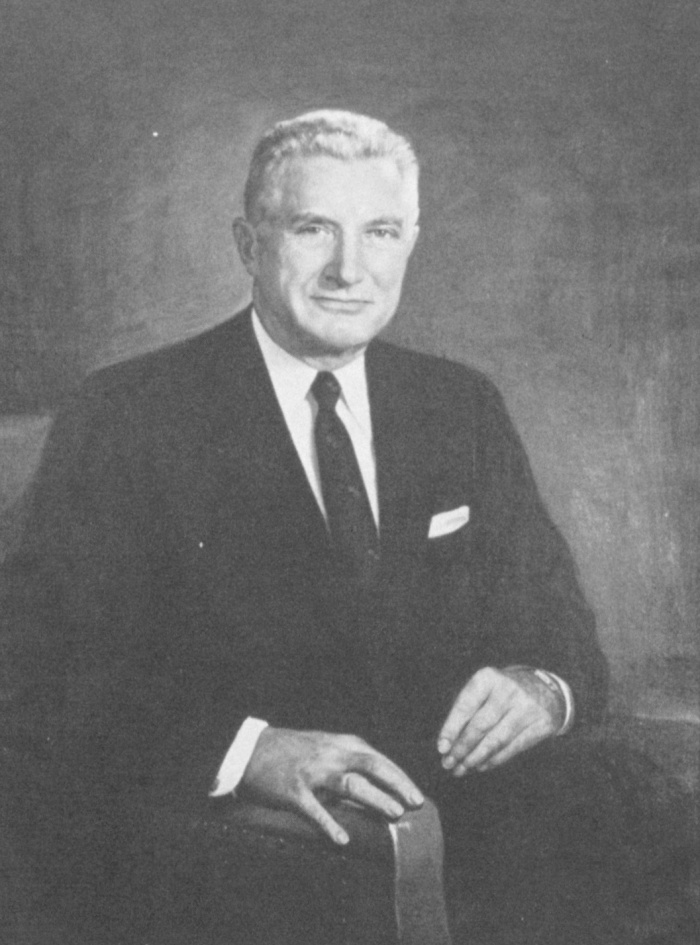 Credit: National Oceanic and Atmospheric Administration/Department of Commerce [1] Frederick Henry Mueller, Secretary of Commerce